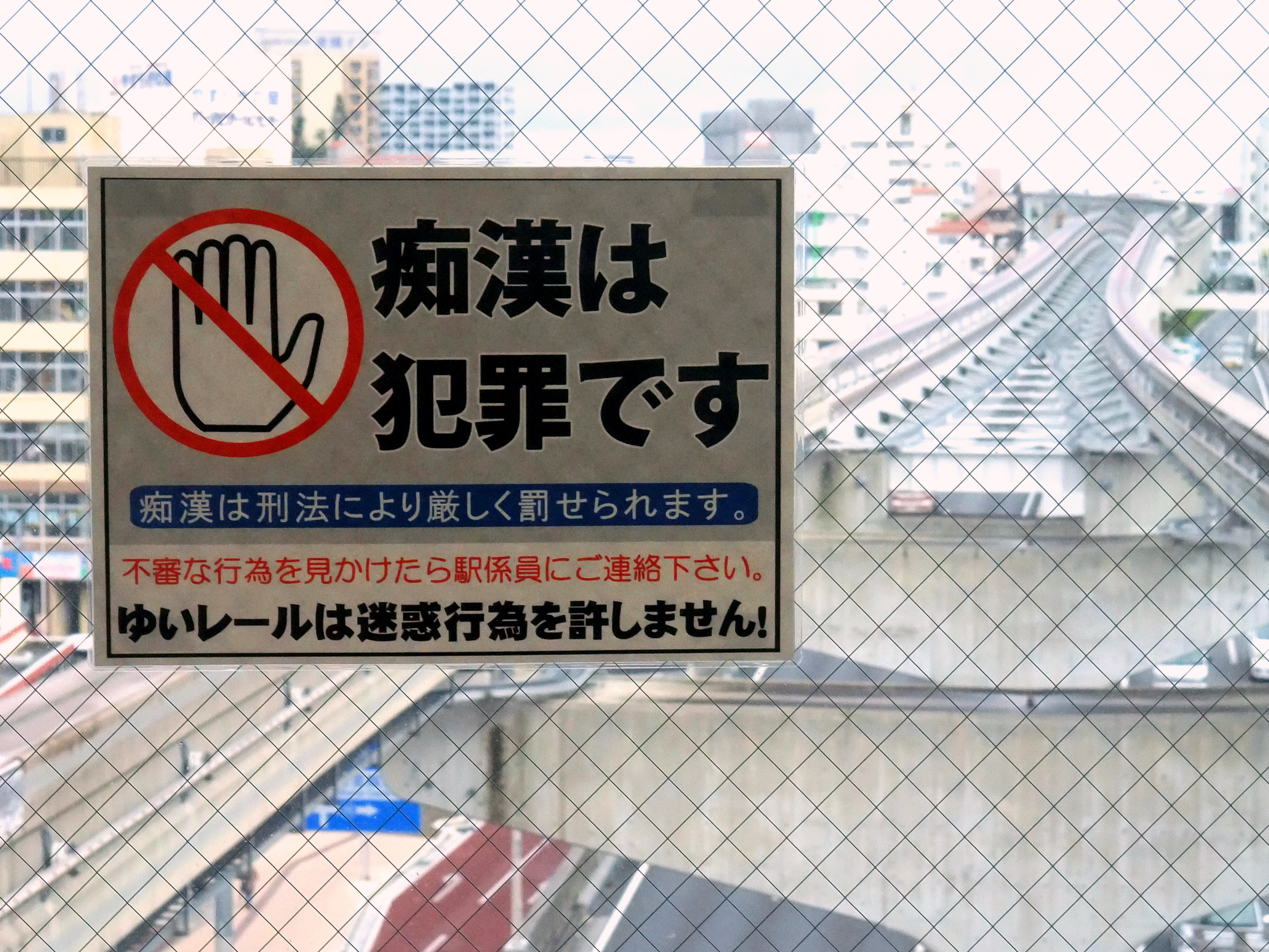 A "chikan" sign posted in a Okinawa City Monorail station, Okinawa, Japan. On the sign wrote: "Groping is a crime."